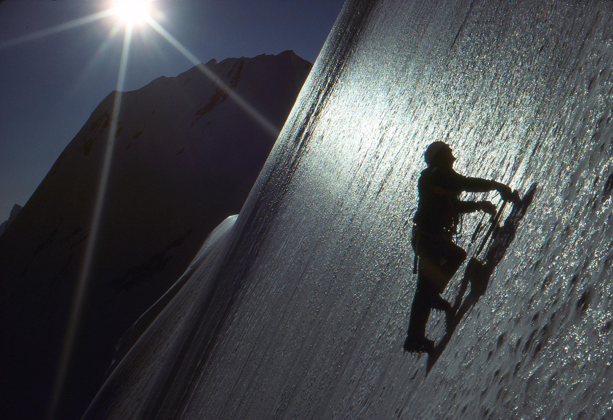 Ice wall climbing - solo